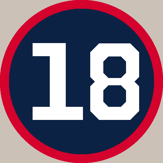 Player: Mel Harder. A recreation of how it looks at Progressive Field, in which the background is beige on a blue circle with white numbers and red circling.